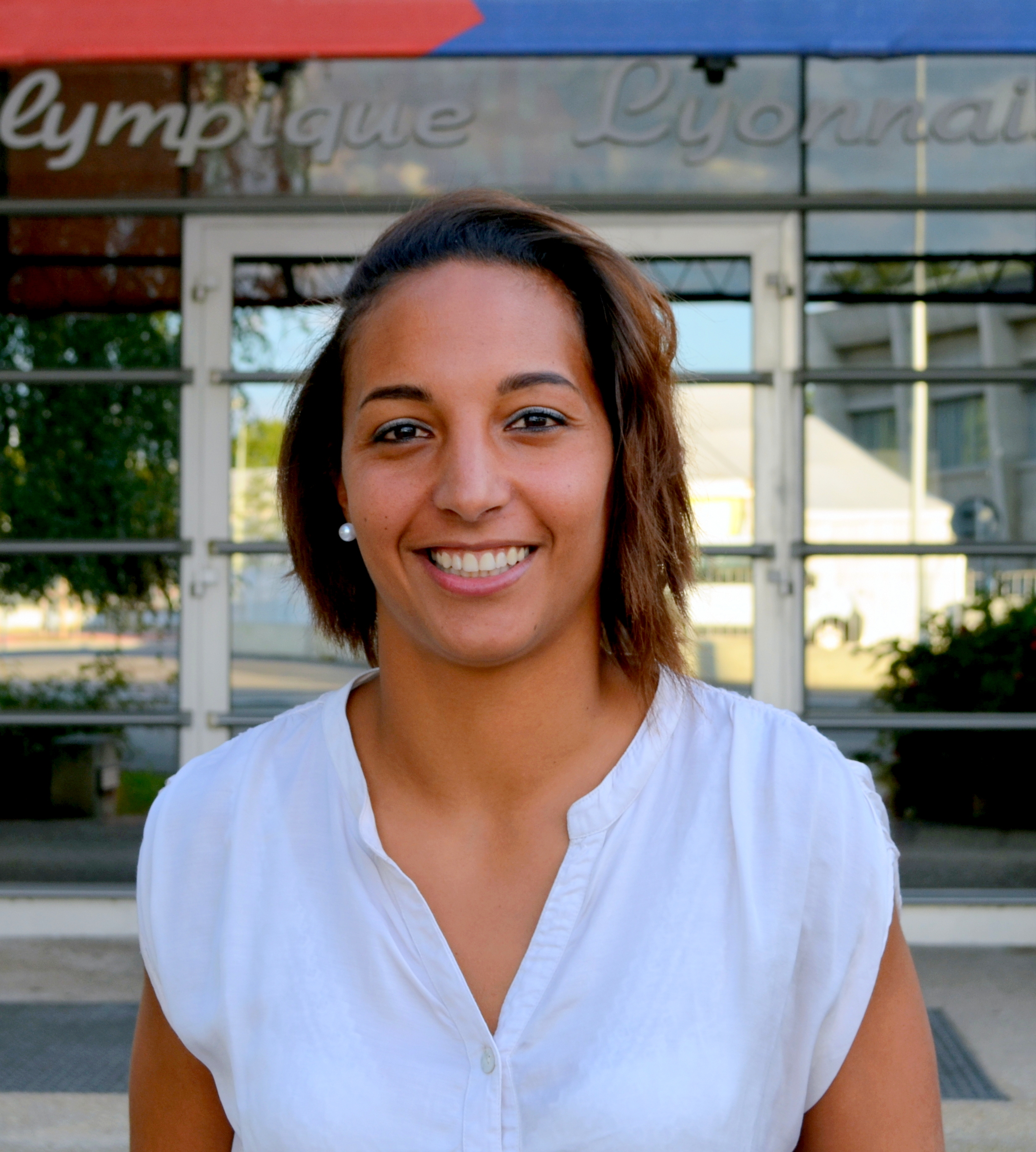 TV show "Culture Club" on OL TV channel - August 22, 2014 - presented by Coline Benaboura assisted by Serge Collonge. Guest: Sarah Bouhaddi, French football player currently playing for Olympique Lyonnais of the Division 1 Féminine.